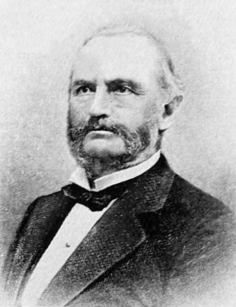 Bradley Barlow, U.S. Congressman from Vermont